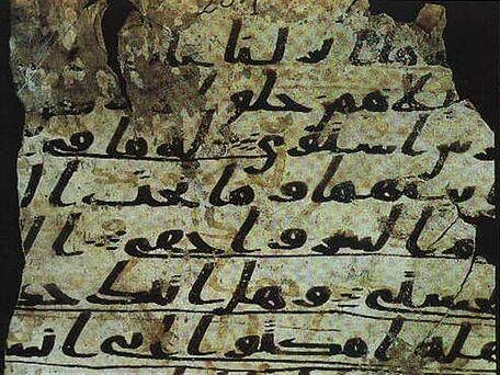 One of the Qur'an fragments from the Sana'a palimpsest, found in 1972 in the loft of the Great Mosque in Sanaa, Yemen, and photographed by Doctor Gerd R. Puin who was in charge of the project between 1981 and 1985. The writings are from verses 3 to 10 of Sura 20 (Taha). The File was transferred from English Wikipedia [1]